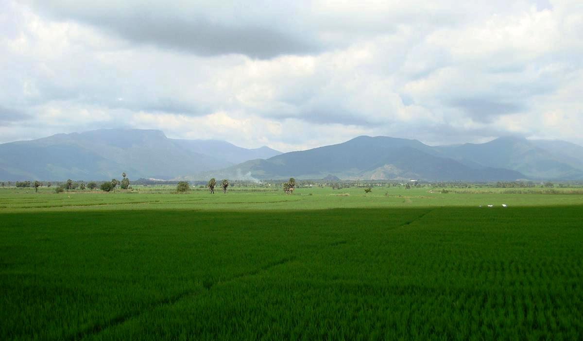 Paddy Fields in Gobichettipalayam